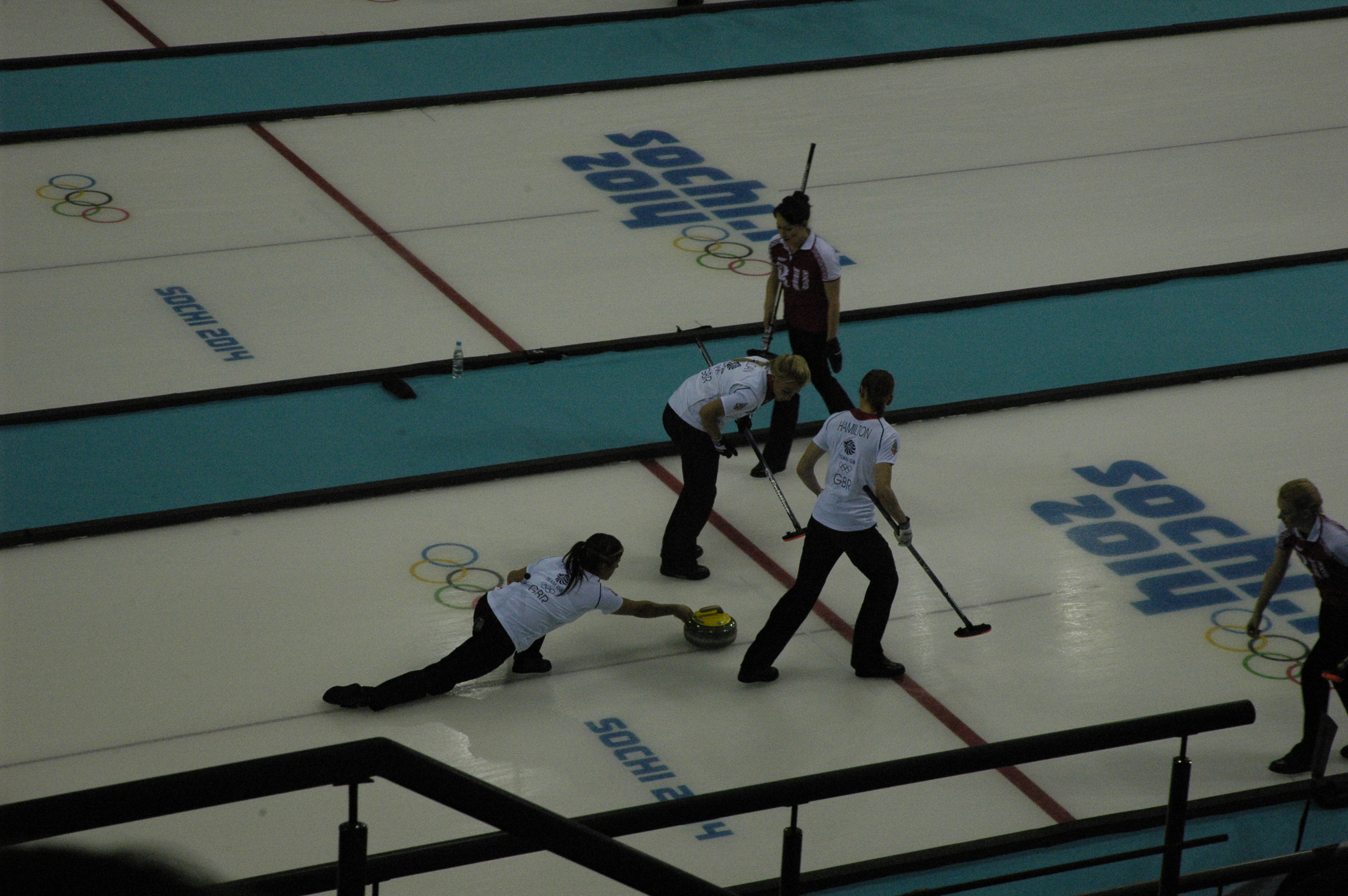 Women's tournament curling, 2014 Winter Olympics, Round robin